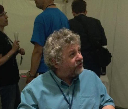 Robert Shearman at Worldcon 2014 (Loncon).